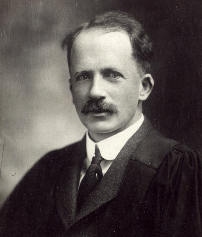 J.J.R. Macleod